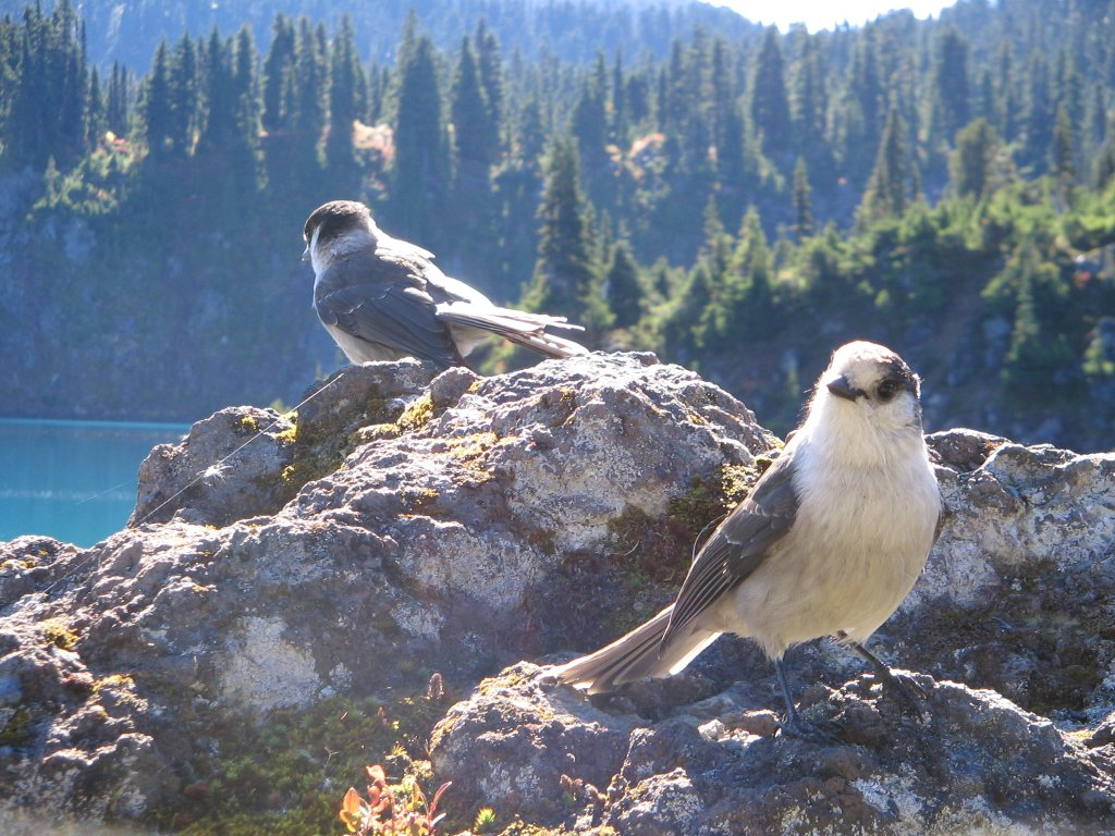 Two Grey Jays on a rock on a shore of Garibaldi Lake, in Garibaldi Provincial Park, British Columbia, Canada. Photo by myself.